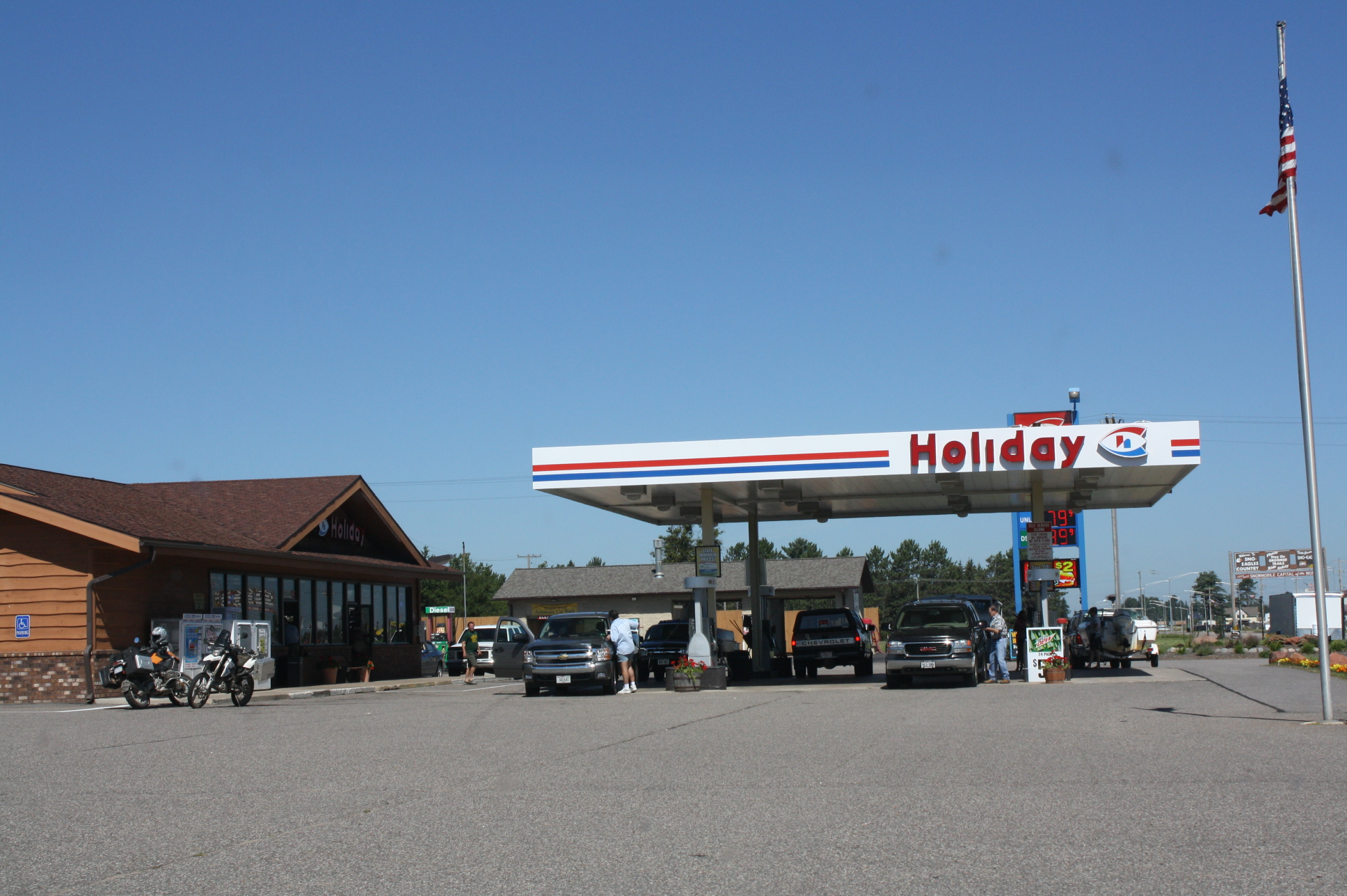 A Holiday (convenience store) in Eagle River, Wisconsin on U.S. Route 45.